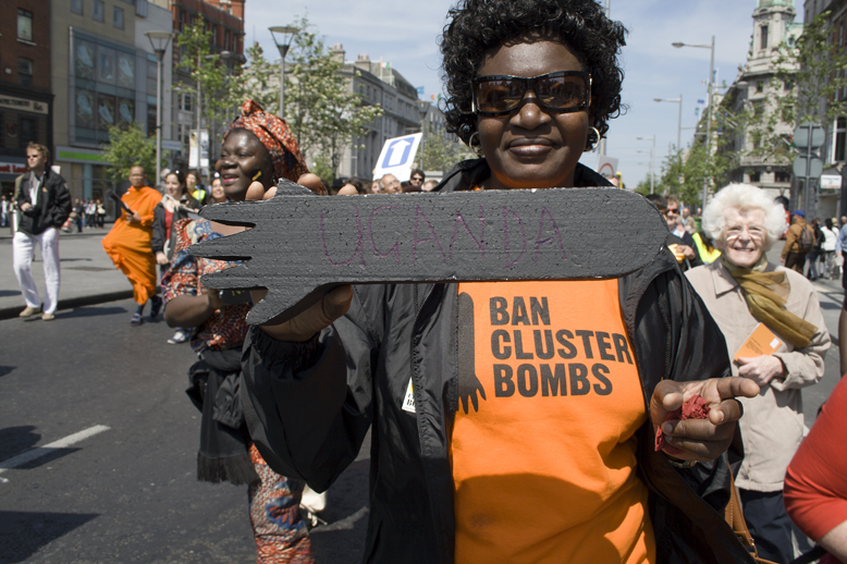 Original caption states, Marchers at the May 2008 Dublin Diplomatic Conference on Cluster Munitions that produced the Convention on Cluster Munitions.